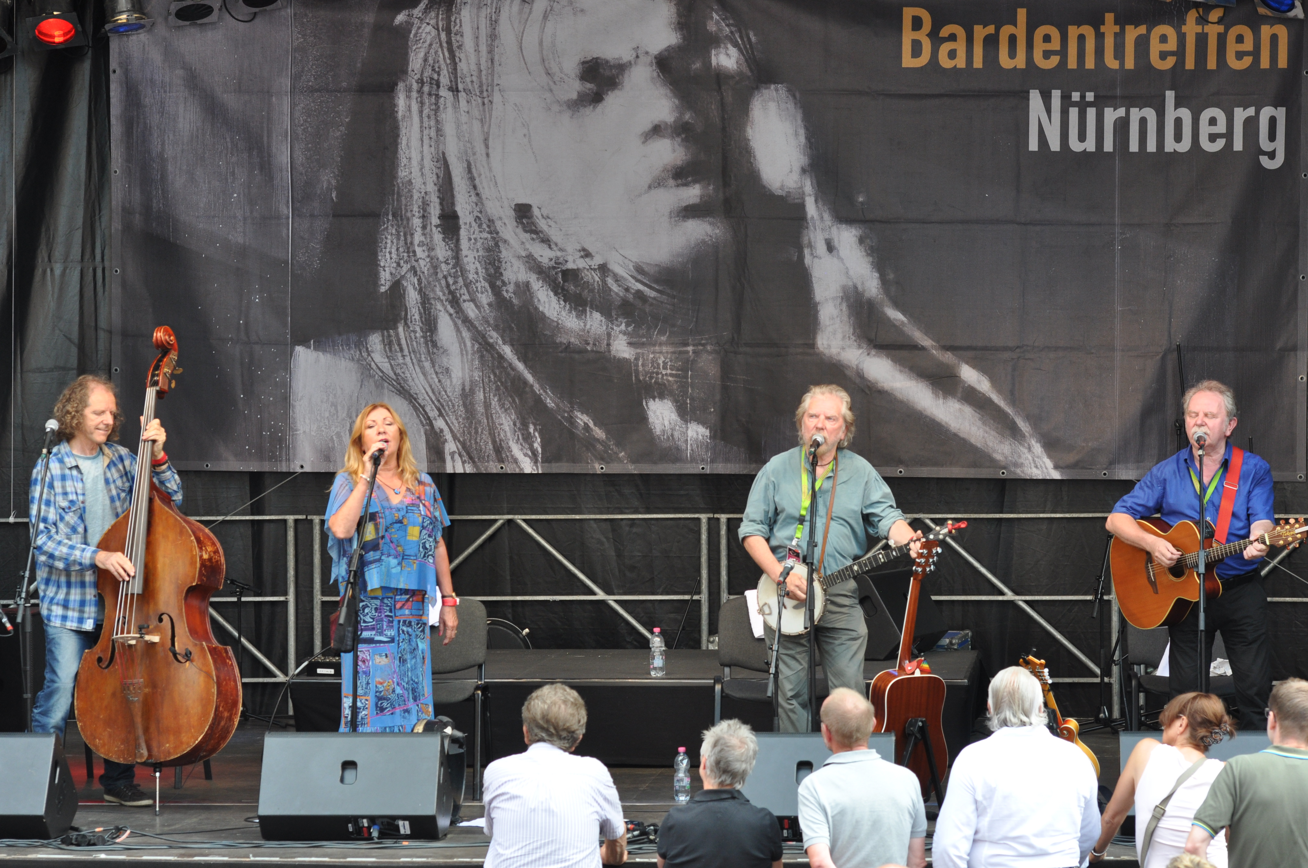 The Sands Family (Ireland), appearance at the 39th music festival "Bardentreffen" 2014 in Nuremberg, Germany, Sebald Square stage